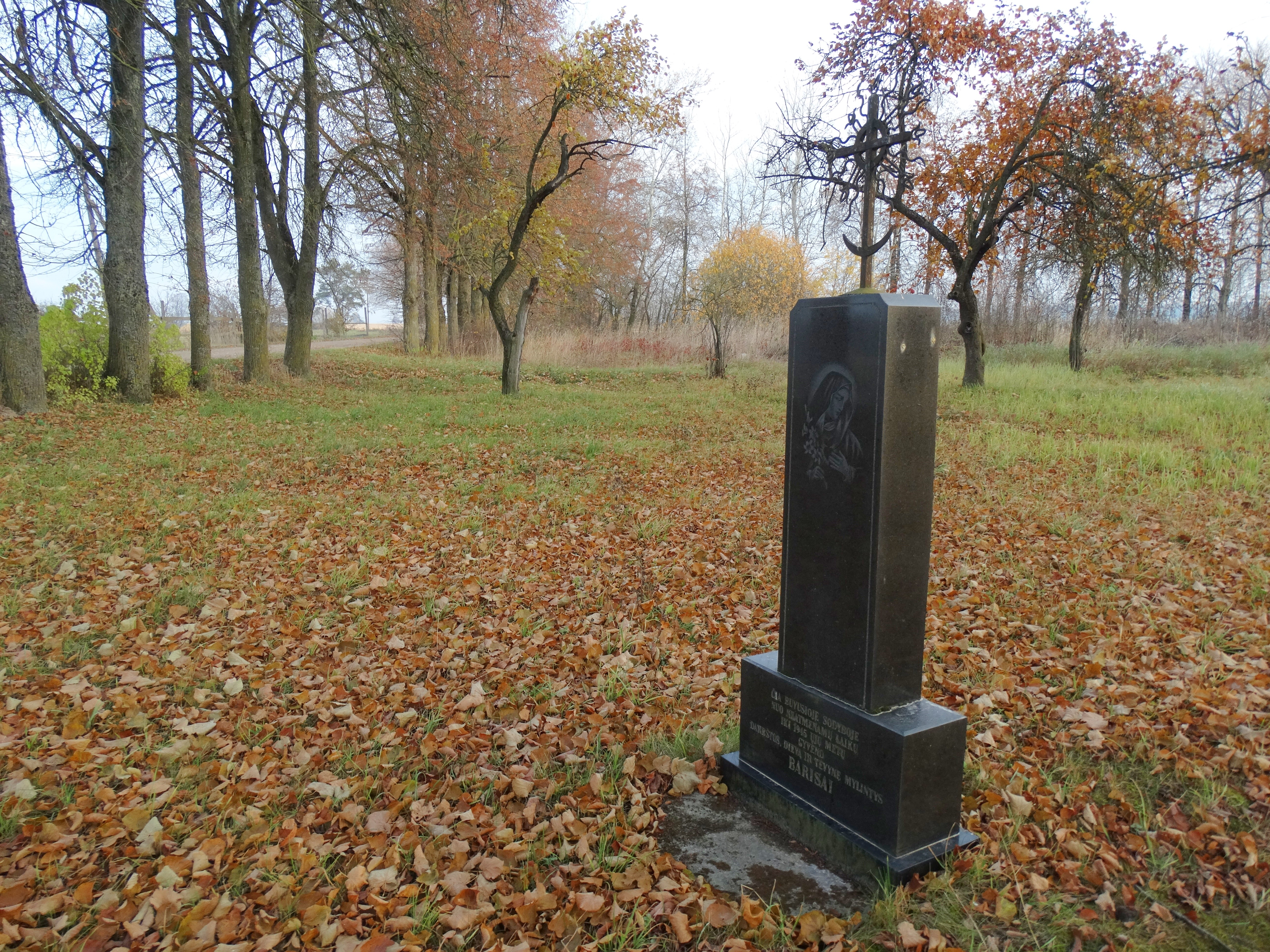 Memorial cross to Barisas family, Pazūkai, Panevėžys district, Lithuania